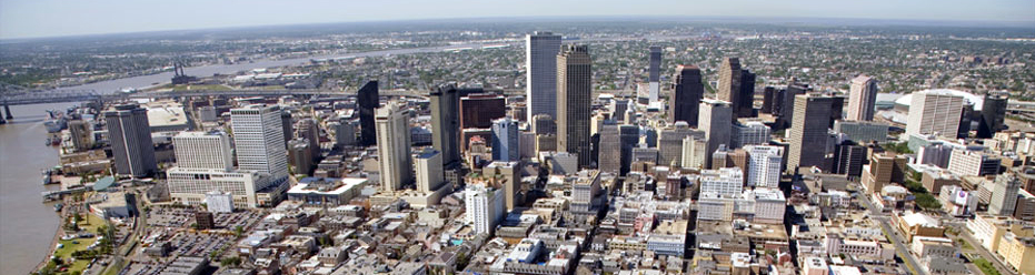 A view of the skyline of New Orleans as seen from the French Quarter area